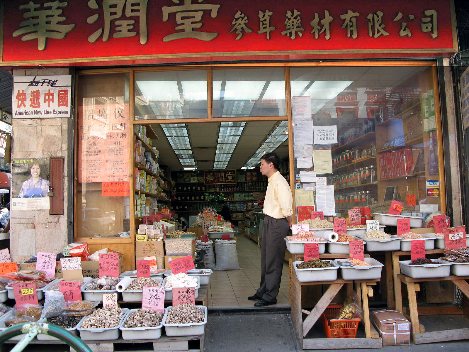 Chinatown (Manhattan), New York City